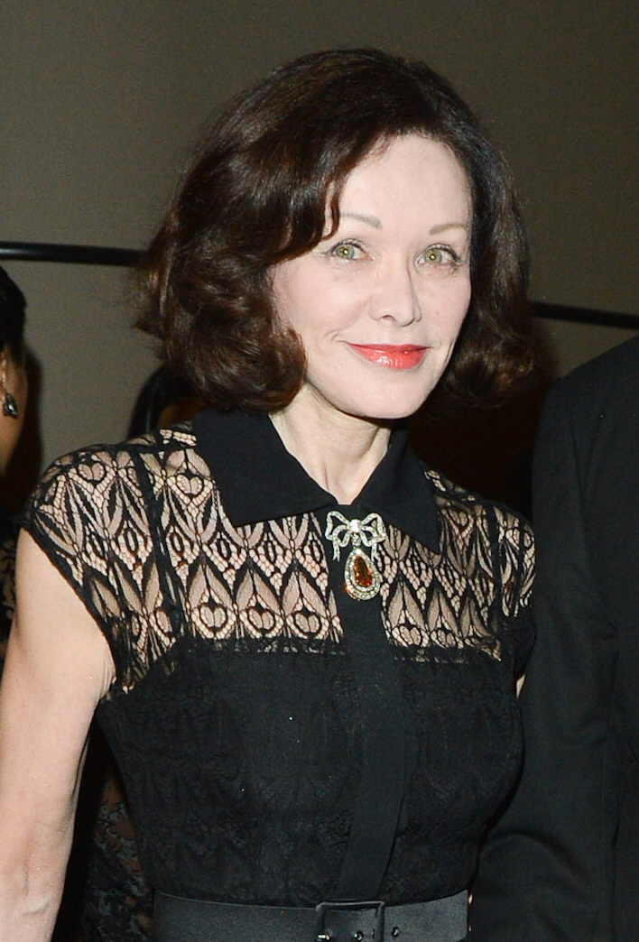 Barbara Amiel at the 2013 Canadian Film Centre Annual Gala & Auction, in February 2013